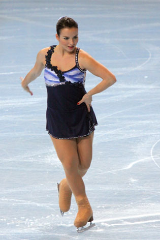 Anna Jurkiewicz at the 2009 Trophée Eric Bompard.